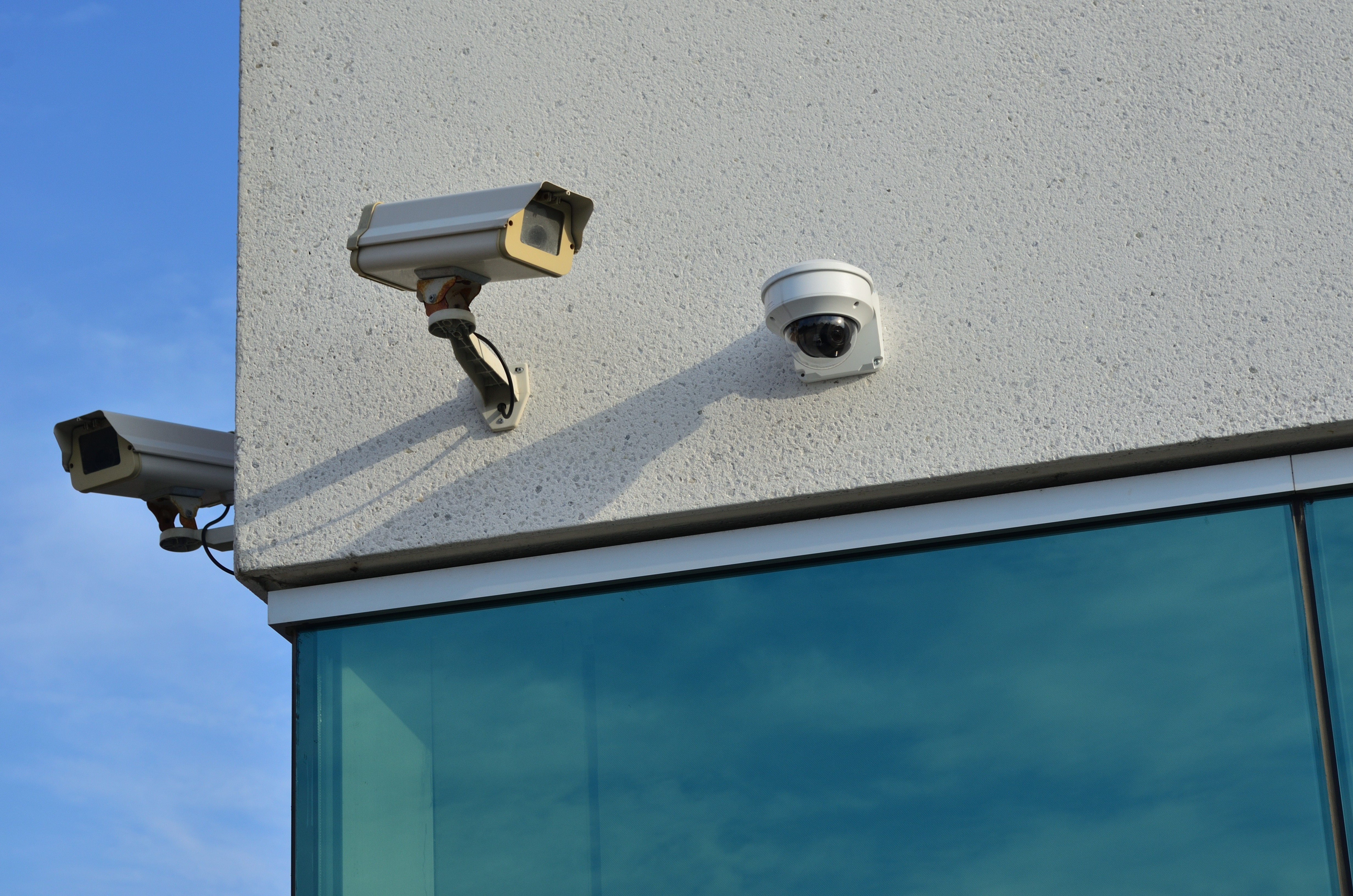 CCTV & blue sky.